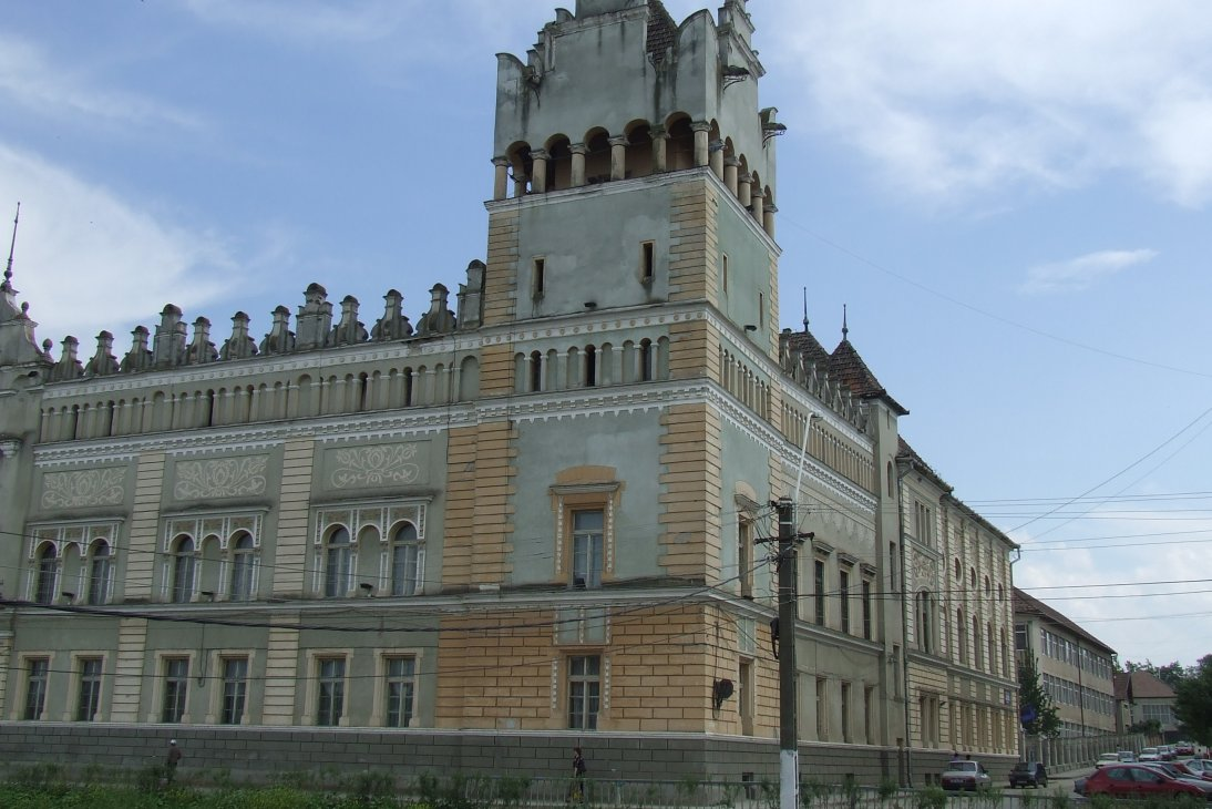 Image from Aiud, Romania